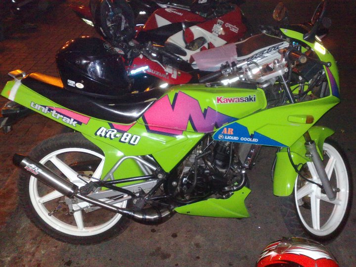 AR-80K With stock Lime Green Paint